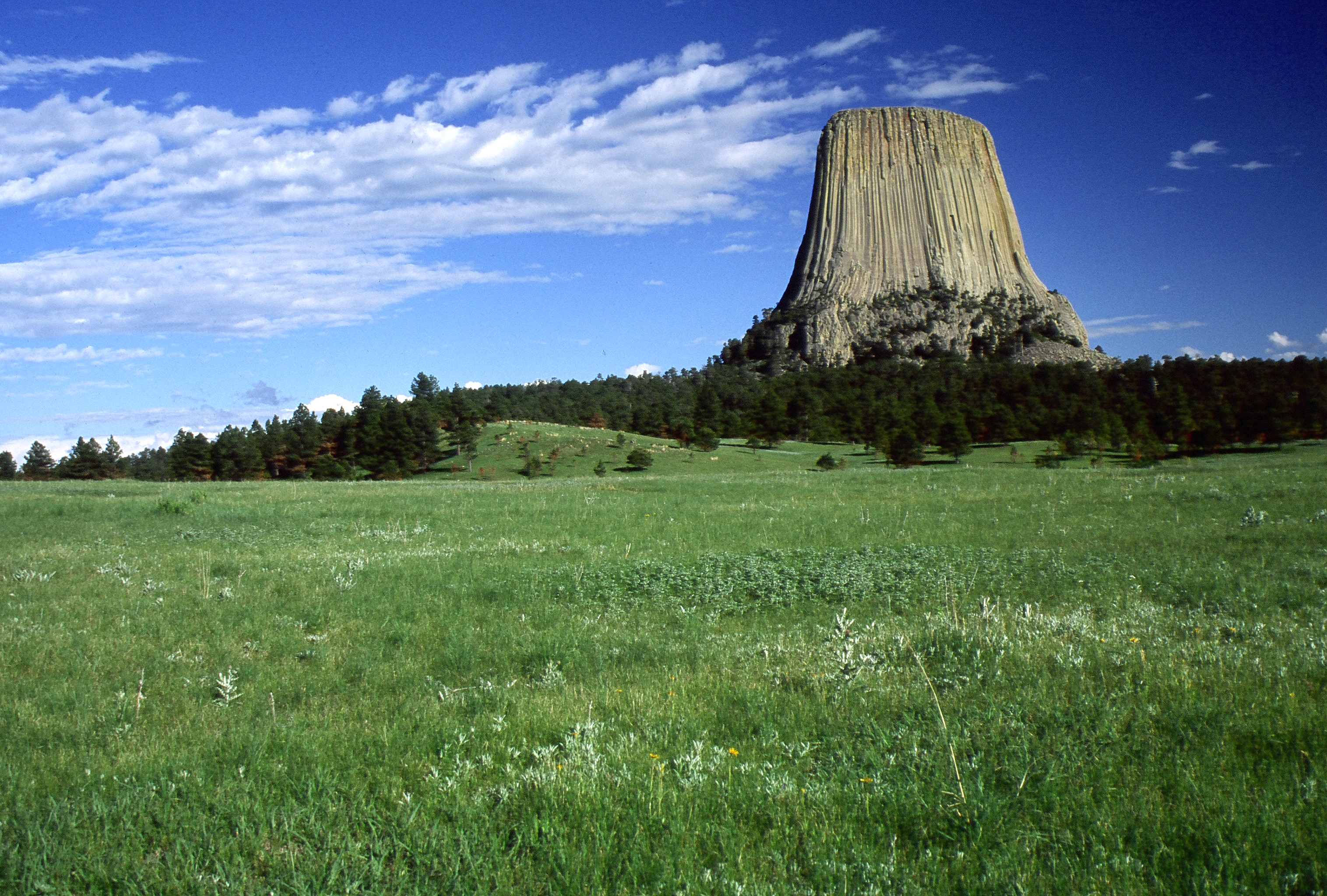 Devils Tower. You can hike around the base of it, but the best views are loop trail further away.